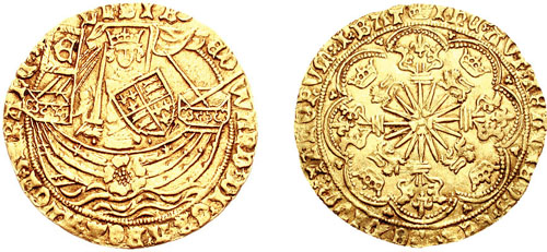 House of York. Edward IV of England. First reign, 1461-1470. AV Ryal Rose Noble (7.59 g, 12h). Light coinage, Type VIII, 1467-1468. London mint, mm: -/crown. Edward standing facing, holding sword and shield, in ship, E on banner at stern, rose on hull, quatrefoil of four pellets after FRAnC, pellet to lower left of shield Rose over sun with fleurs, crowns, and lions; small trefoils in spandrels; quatrefoil of four pellets after ILLORVM, first S missing in TRAnSIEnS. Blunt & Whitton p. 172, Type VIII(A), 1; Schneider -; North 1549; SCBC 1951. VF, light earthen encrustation, some flatness. From the John F. Sullivan Collection.